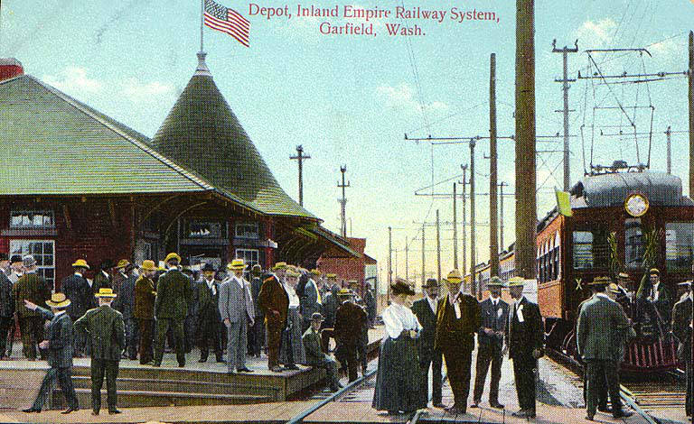 Caption on image: Depot, Inland Empire Railway System, Garfield, Wash. Subjects (LCSH): Inland Empire Railway; Railroad stations--Washington (State)--Garfield; Electric railroads--Washington (State)--Garfield